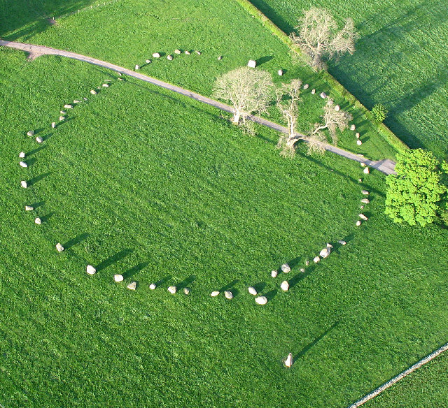 Long Meg and her Daughters, Eden Valley, Cumbria